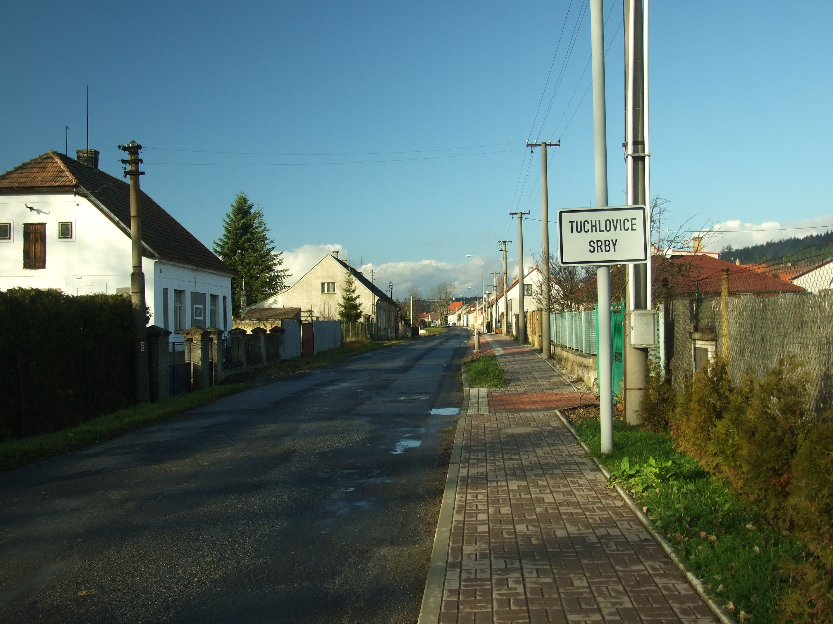 Tuchlovice-Srby, near Stochov, Central Bohemian Region, CZ help